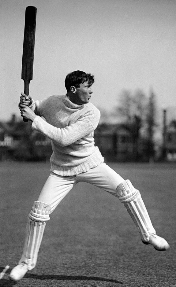 Alan Marshal, Queensland and Surrey, circa 1905.